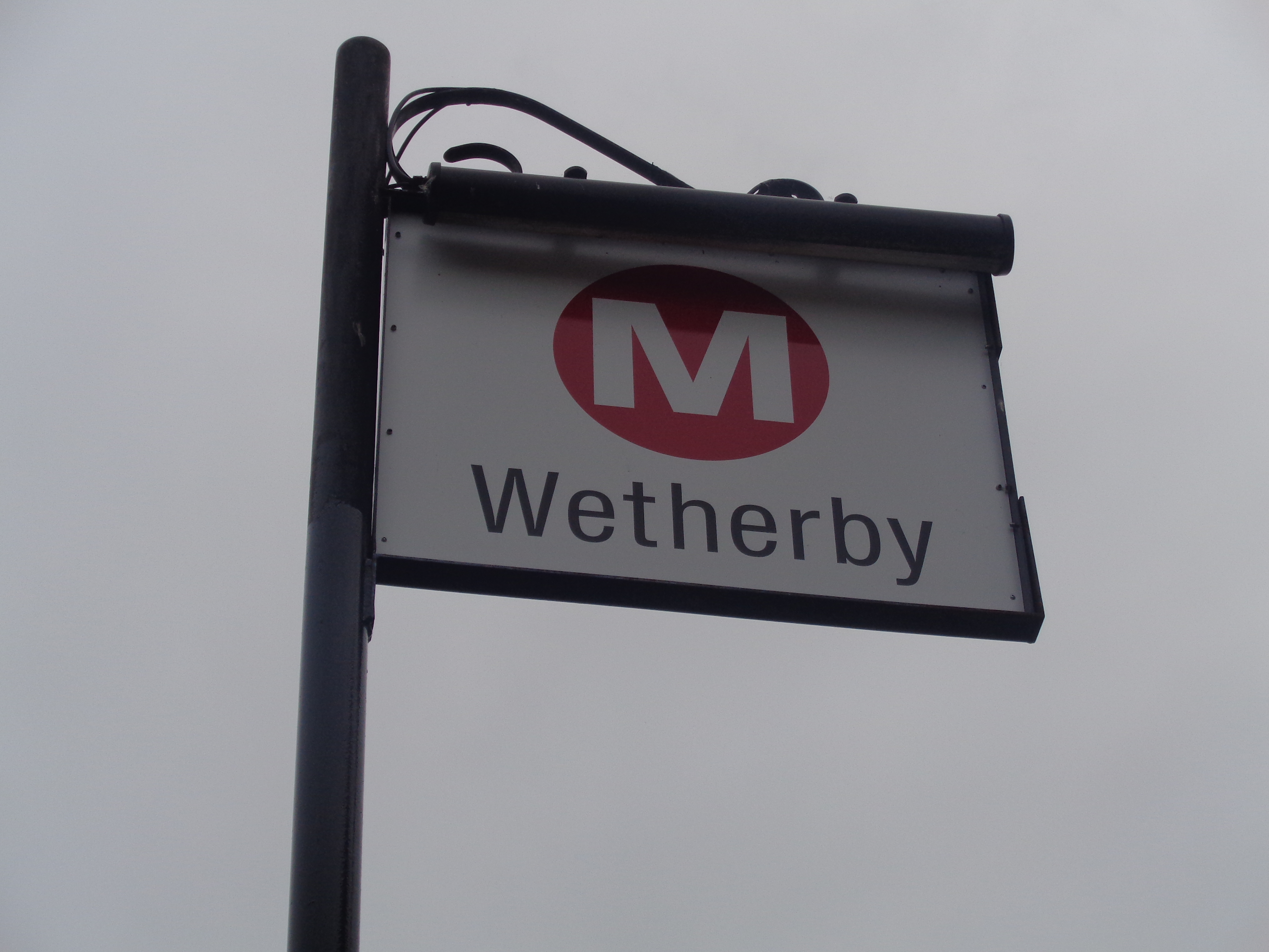 A sign advertising your arrival destination at Wetherby bus station. The 'M' logo is that of the West Yorkshire Passenger Transport Executive (Metro). Taken on the evening of Sunday the 30th of August 2015.